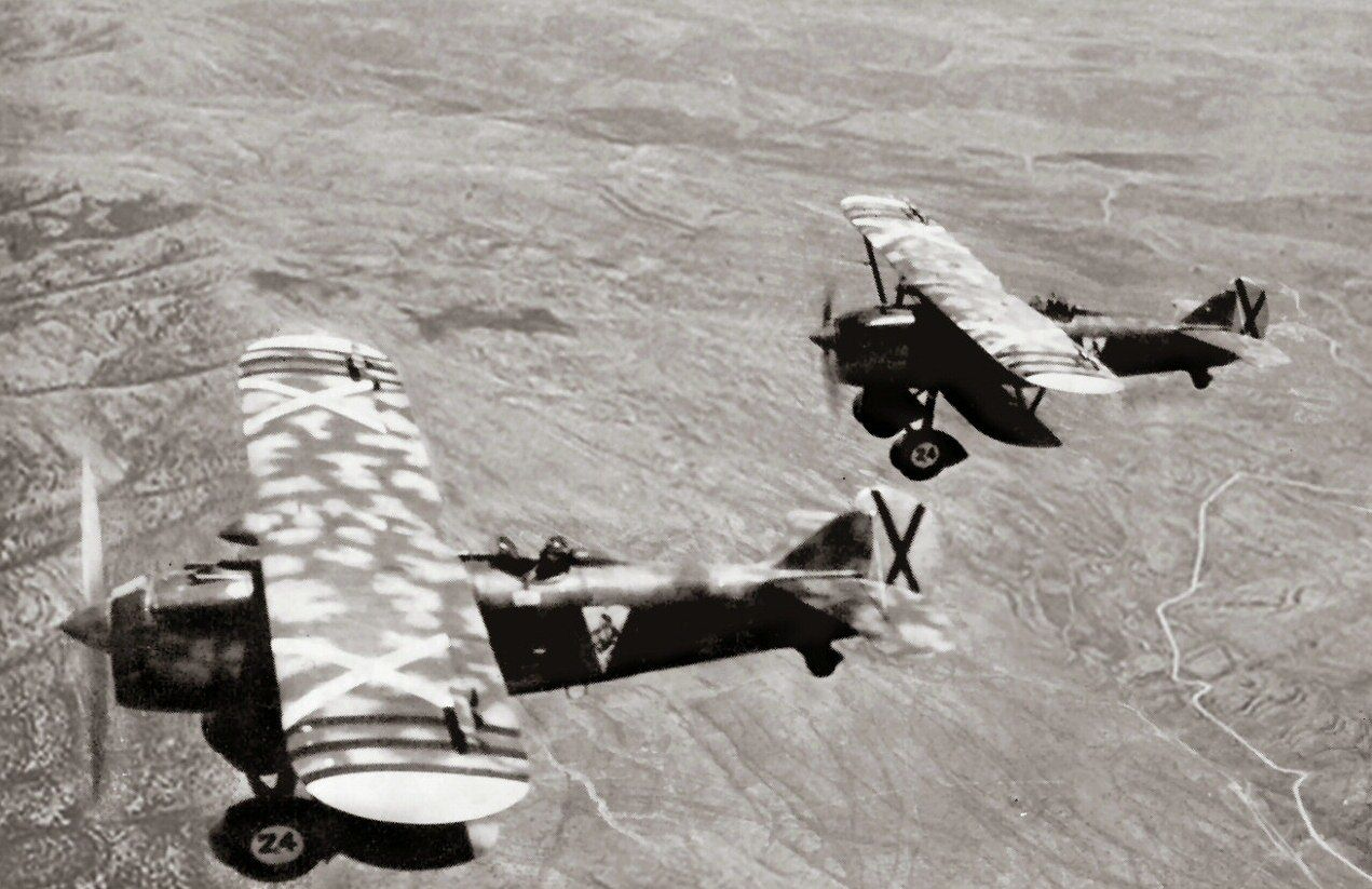 Two Fiat CR.32s of the XVI Figter Group "Cucaracha"